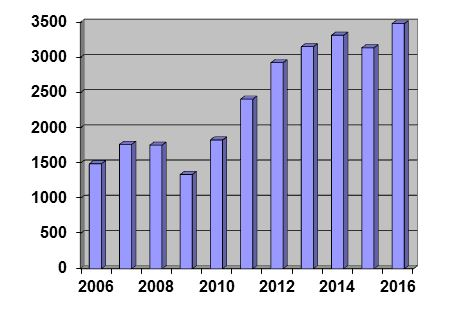 Dynamics of exports of goods and services from Armenia in 2006-2016., millions of $ US